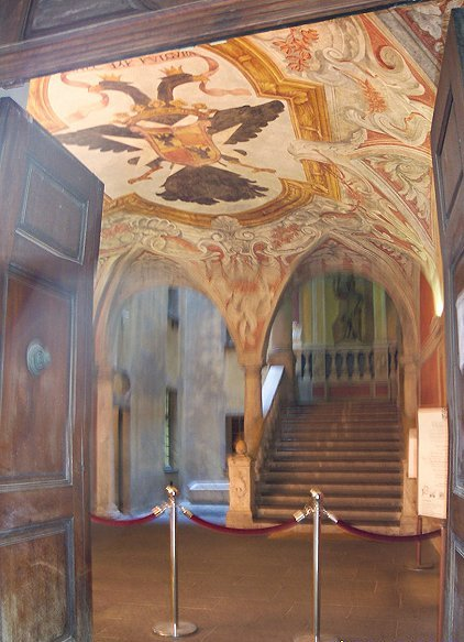 Arms of Lascaris de Candia at the Ventimiglia palace, Nice, France.